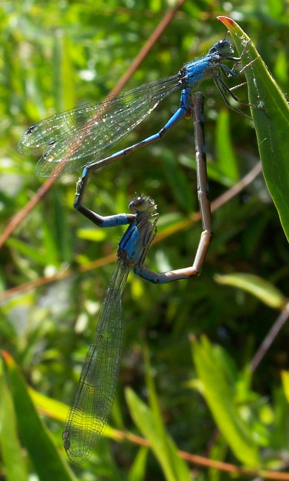 Tule Bluet, beginning of copulation